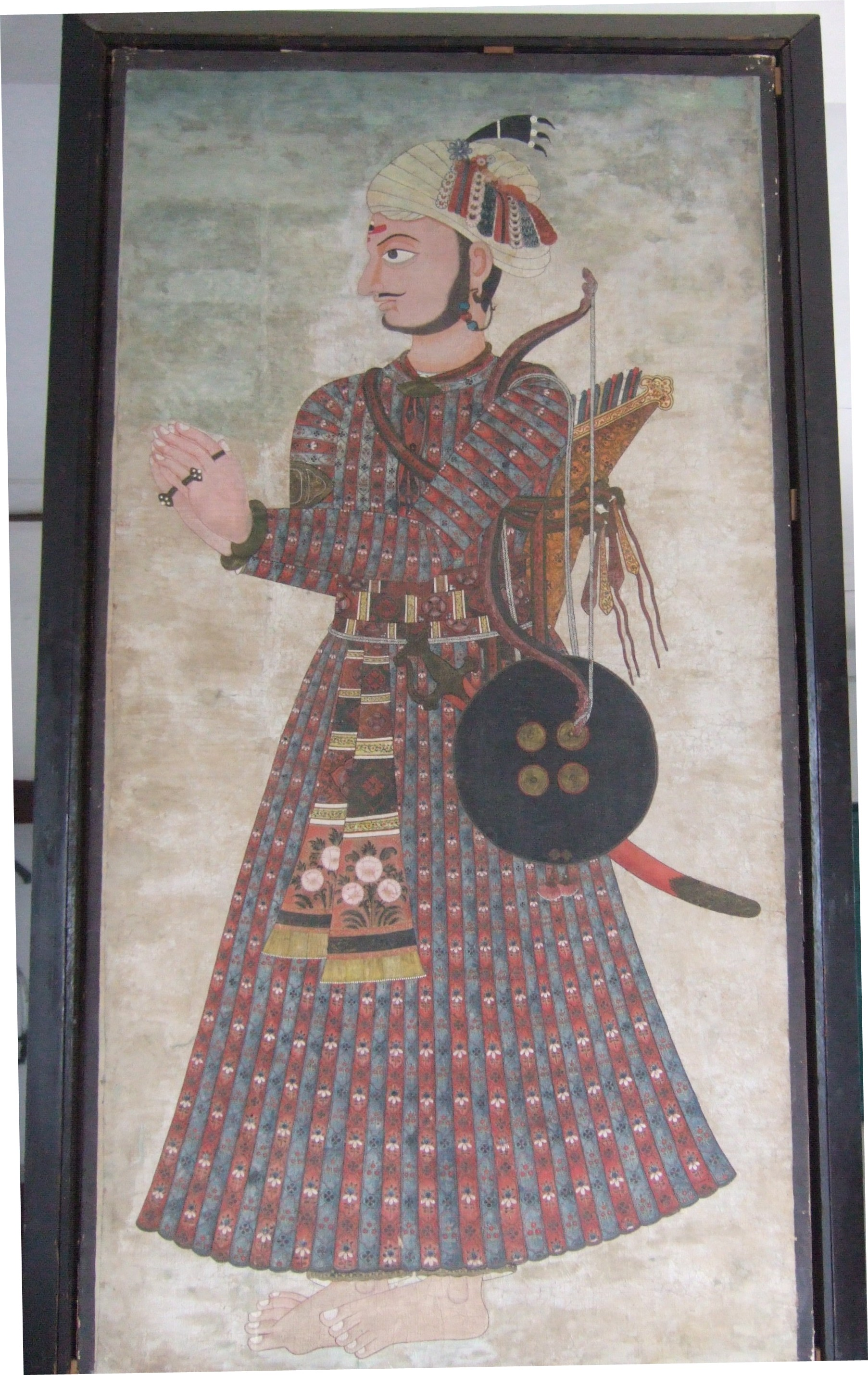 King Jaya Prakash Malla of Kathmandu (Nepal) 18th century. Portrait in the National Museum of Nepal